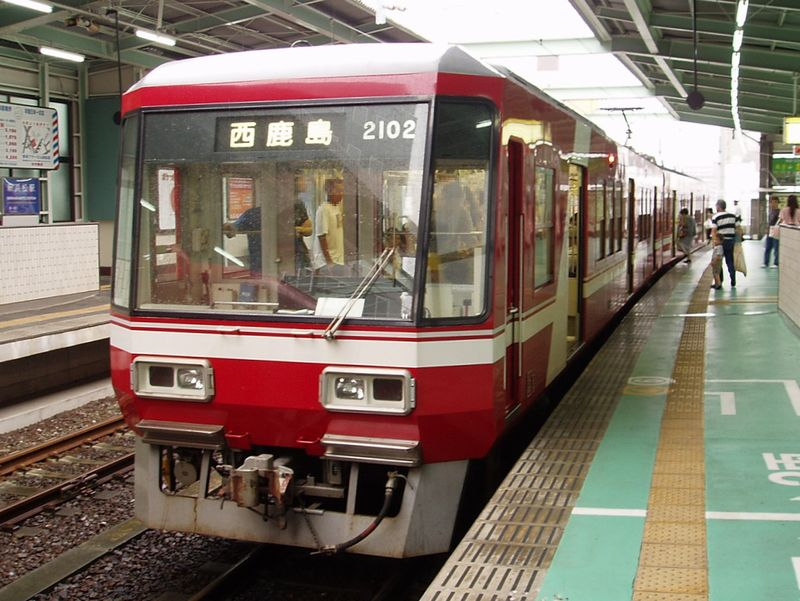 Enshu Railway Company, EMU Type 2000 No.2102 at Shin-Hamamatsu Sta.